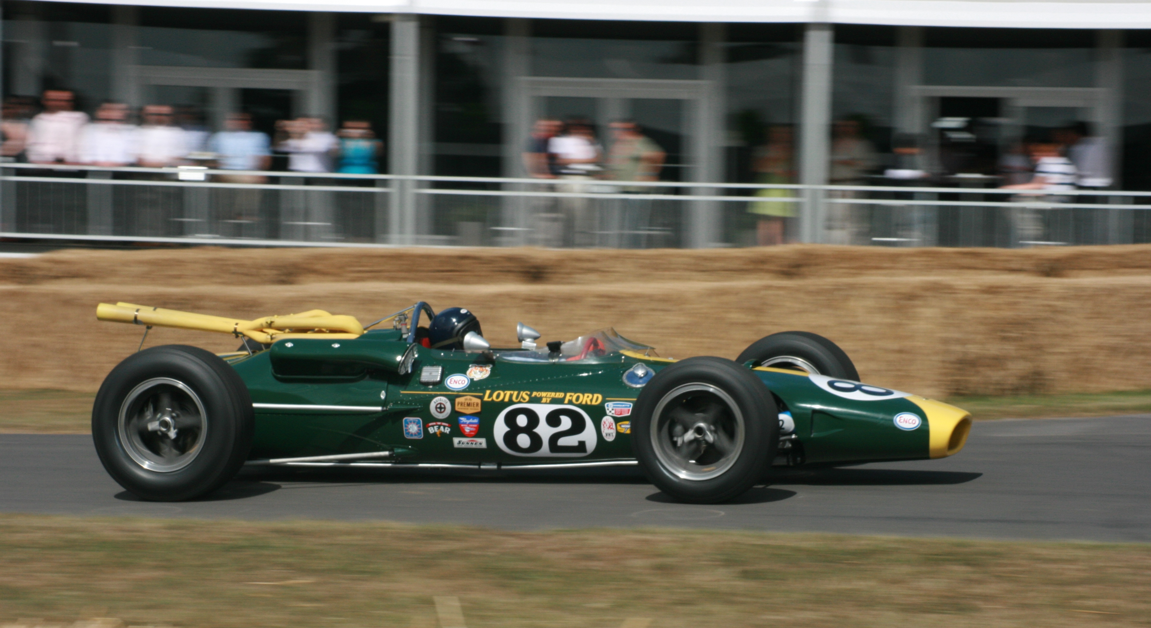 Jim Clark's 1965 Indianpolis 500-winning Lotus 38, being driven up the hill during the 2010 Goodwood Festival of Speed by former three-time World Champion Jackie Stewart.